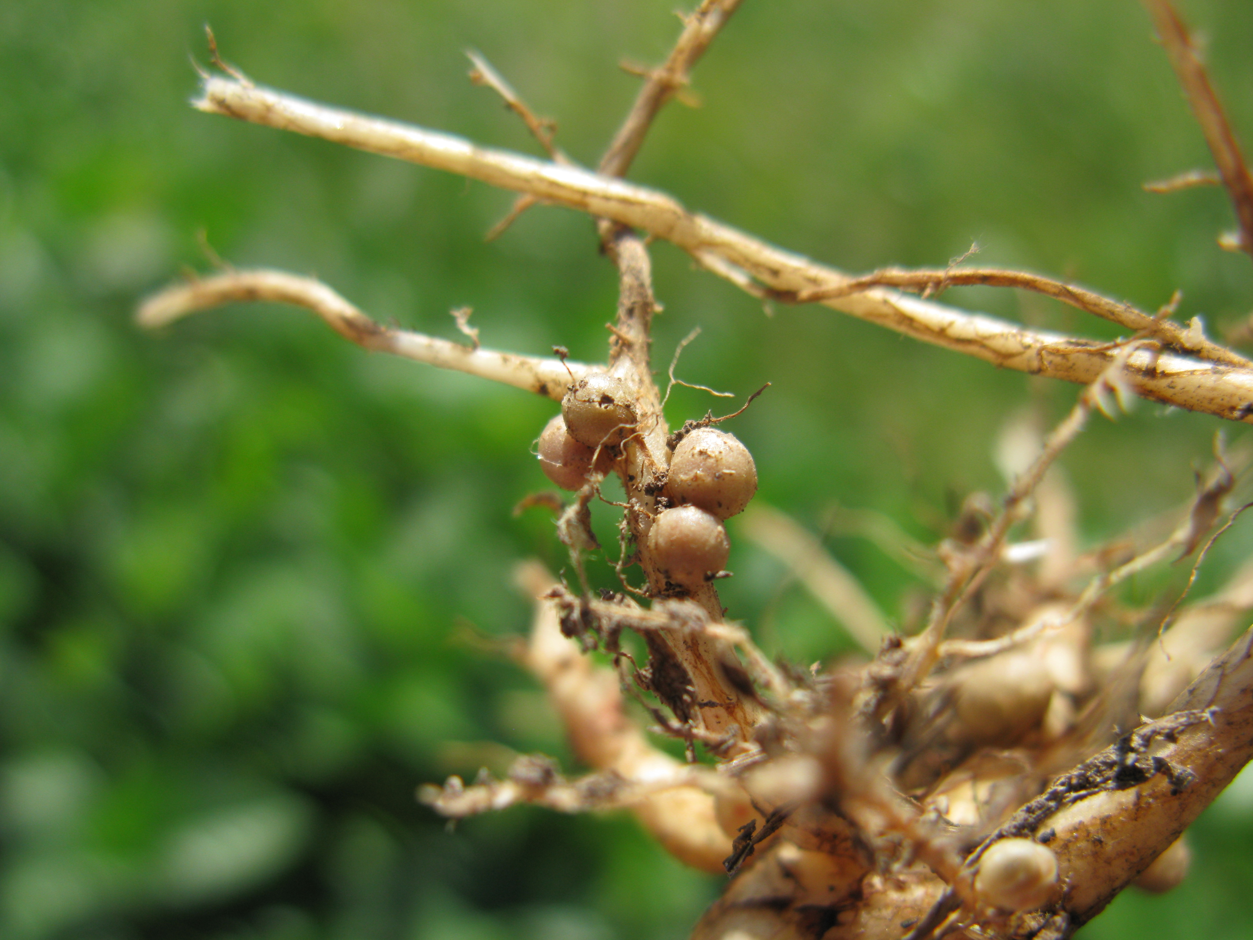 Nodules formed on roots due to symbiosis with nitrogen forming bacteria. The plants get nitrogen out of the relationship and bacteria get housed and fed.